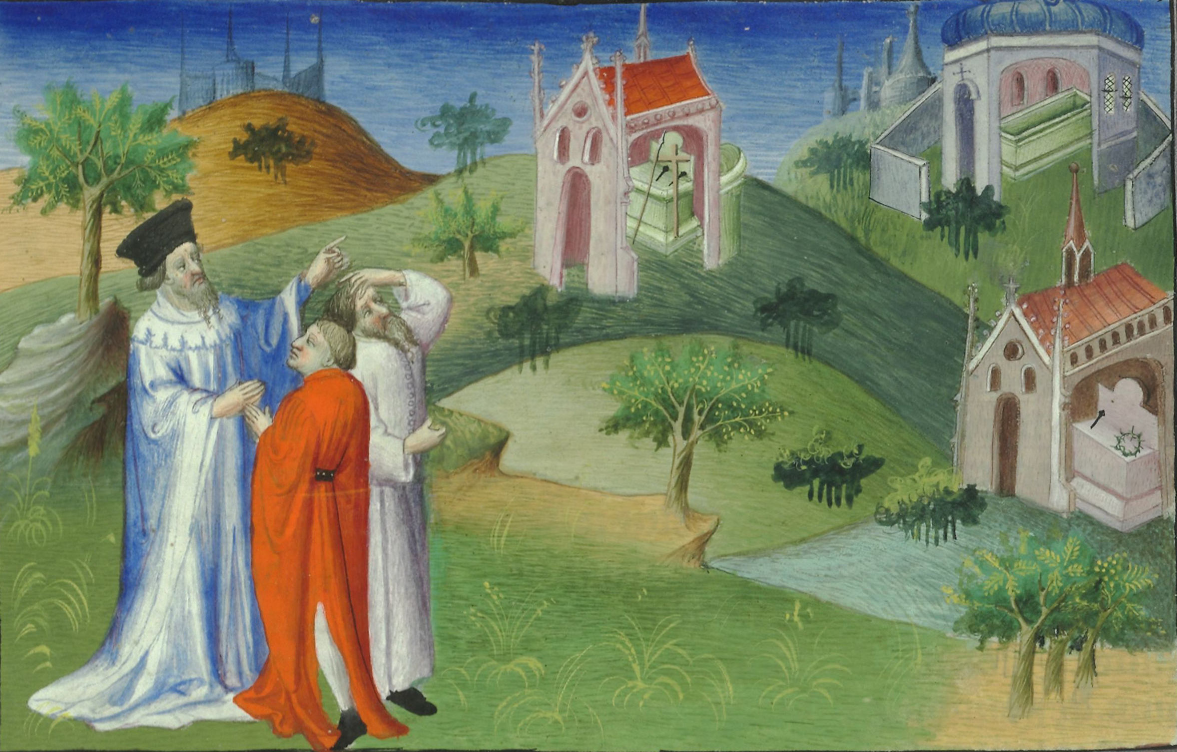 Livre des merveilles. Pilgrims admire the relics and the instruments of the Passion in Constantinople. In the left church, the Spear of Destiny, the nails and the Holy Cross. In the right church, the Crown of thorns.